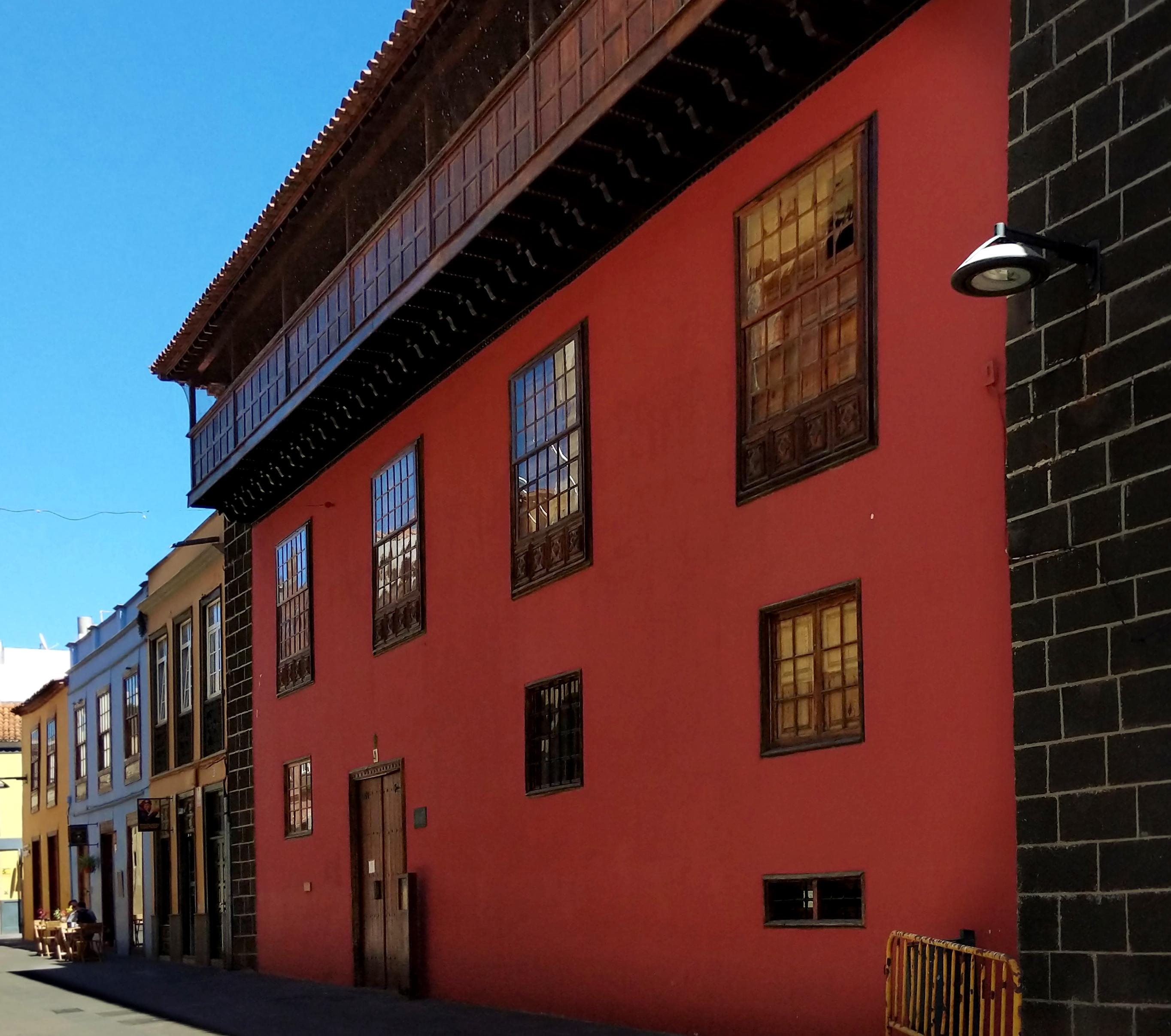 Casa Ossuna La Laguna, headquarters of the Instituto de Estudios Canarios